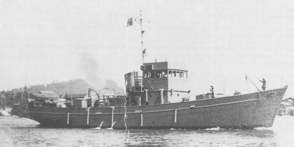 No.1 class auxiliary submarine chaser of the Imperial Japanese Navy, ship number is unknown.